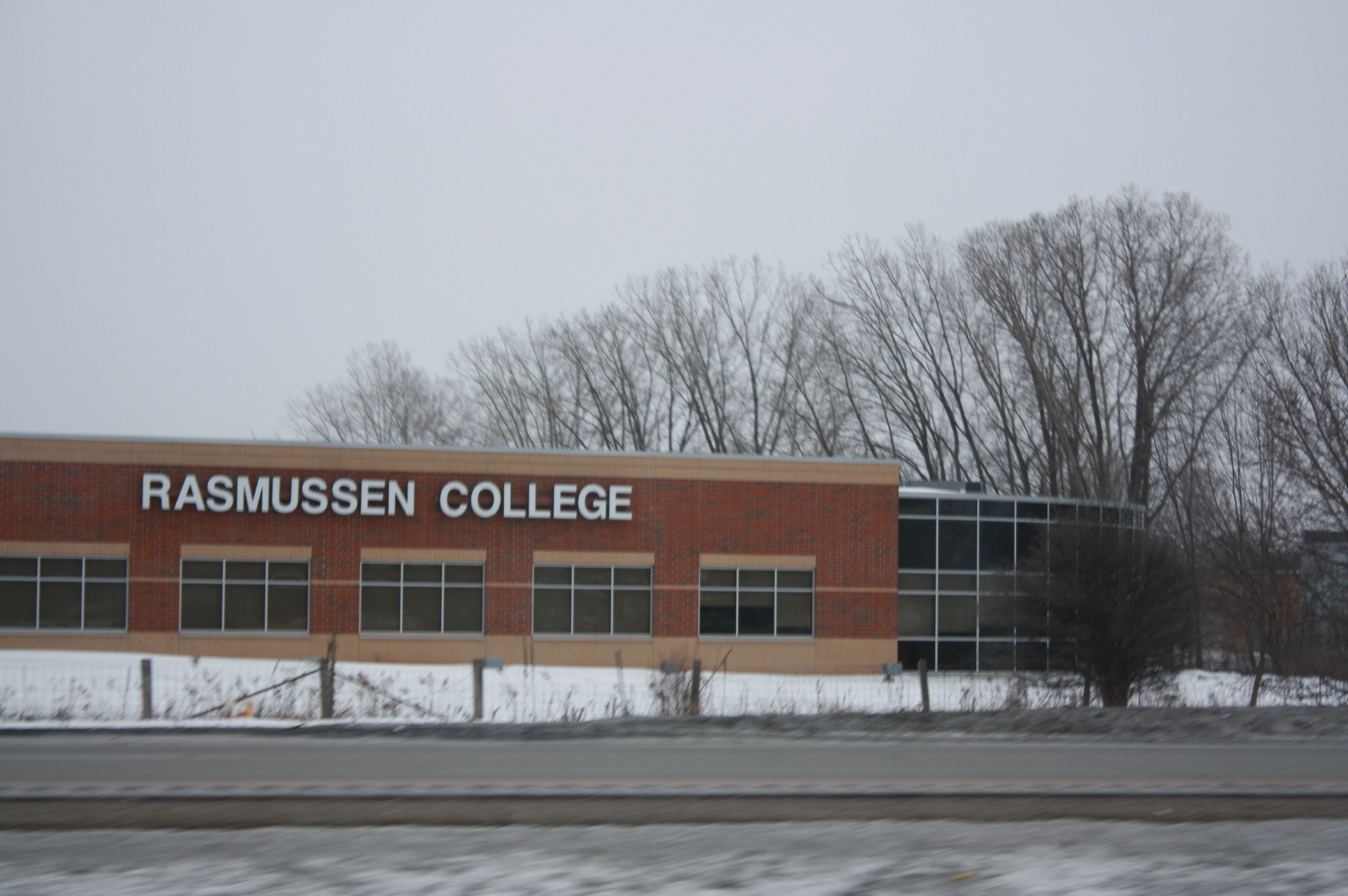 The Rasmussen College building in Green Bay, Wisconsin on U.S. Route 41.